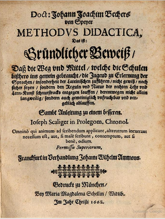 Methodus didactica, Johann Joachim Becher (1635-1682)